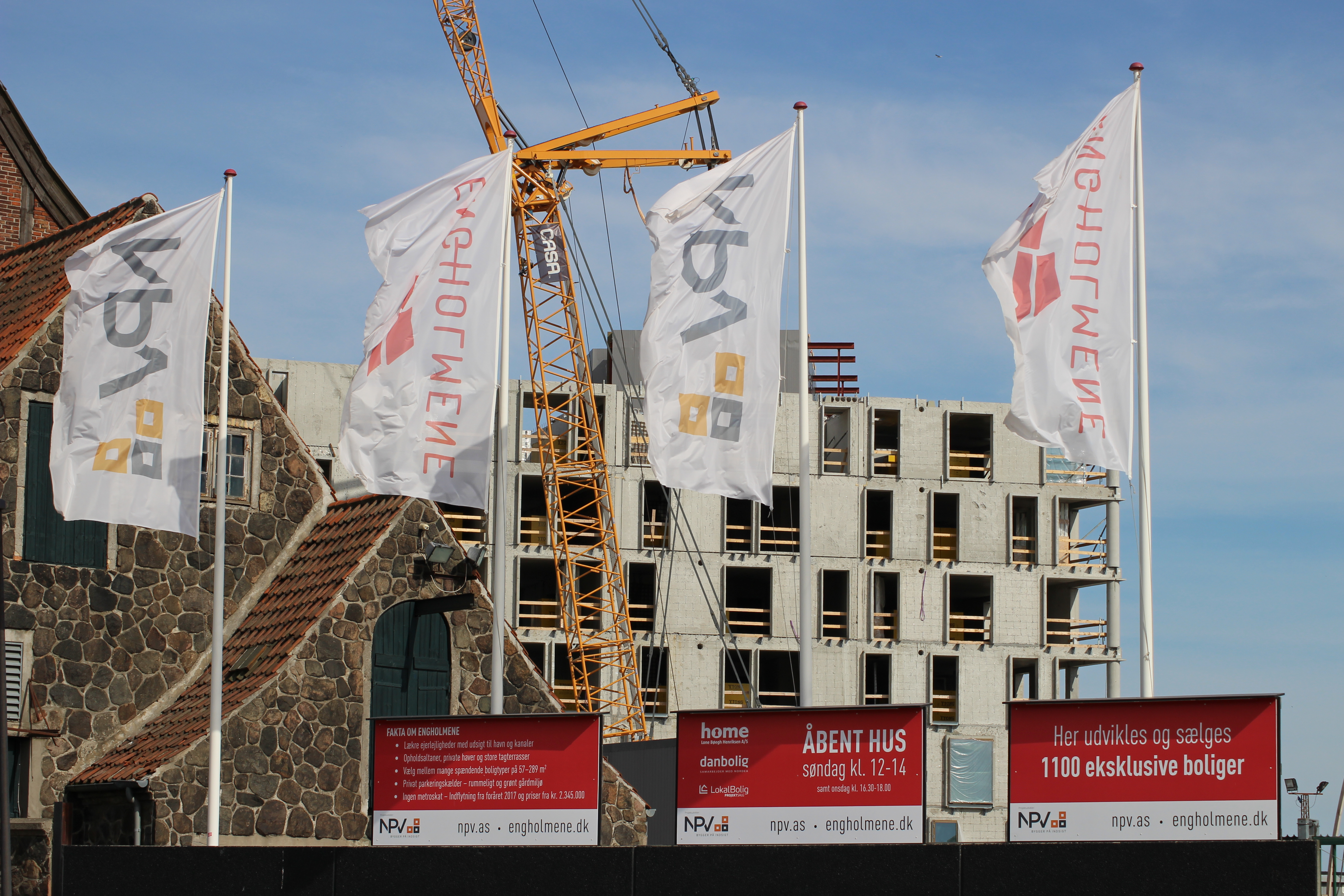 "Engholmene" construction site in Sydhavnen, Copenhagen, Denmark.